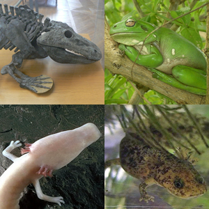 Collage of File:Eryops megacephalus head side.JPG, File:Caerulea cropped(2).jpg, File:P anguinus-head.jpg and File:Hynobius kimurae (cropped) edit.jpg